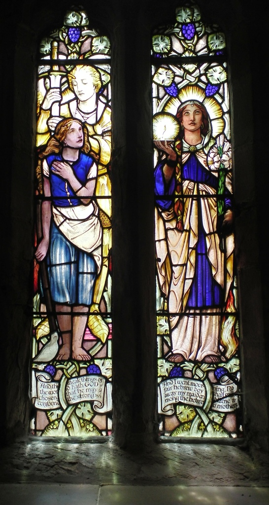 Paul Woodroffe window in SS Mary and Michael. Great Urswick. Cumbria